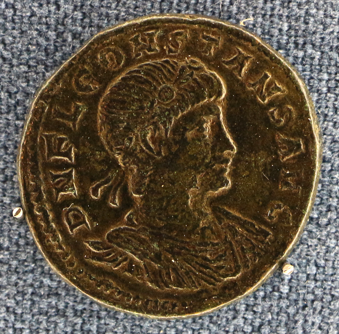 Ancient Roman medals in Palazzo Blu (Pisa)